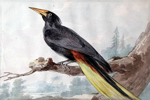 A Crested Oropendula